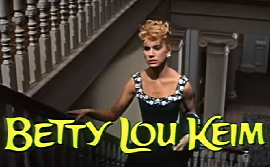 Betty Lou Keim in trailer for "Some Came Running" (1958)